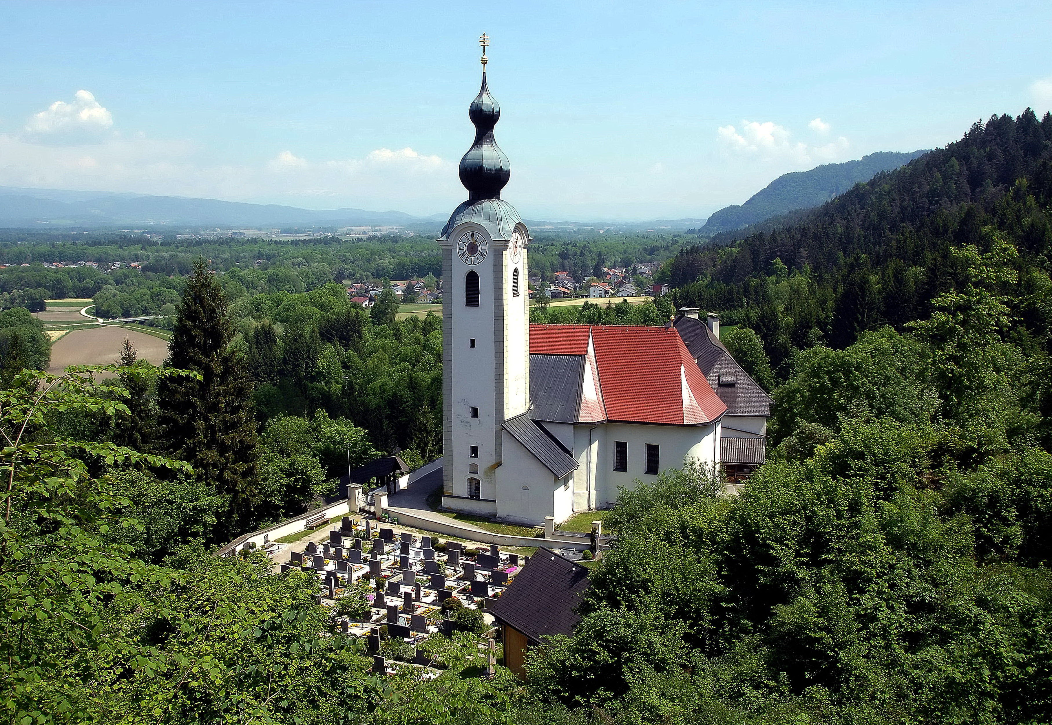 Collegiate church Saint Martin and provost house in Gurnitz, municipality Ebenthal in Kärnten, district Klagenfurt Land, Carinthia, Austria, EU